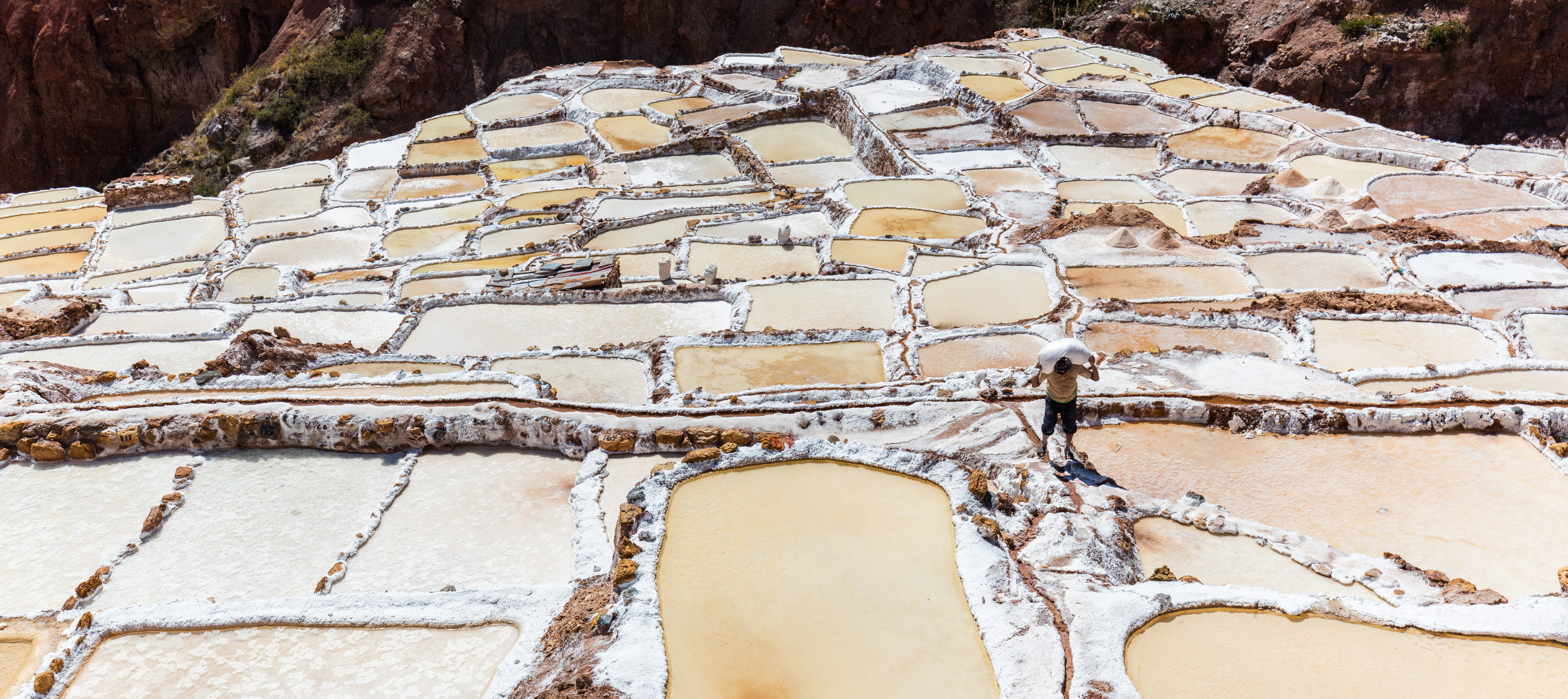 Worker carrying a sack of salt on his shoulder in Salineras (salt evaporation ponds) in Maras, Peru. Salt has been harvested in Maras since the time of the Inca Empire. The site has around 3000 ponds of 5 square metres (54 sq ft) each. As the location is surrounded by salty mountains, subterrean water deposits the salty water in the ponds; the water evaporates due to the exposure to the sun. After approx. 1 month the level of salt reaches 10 centimetres (3.9 in) and is removed in sacks.